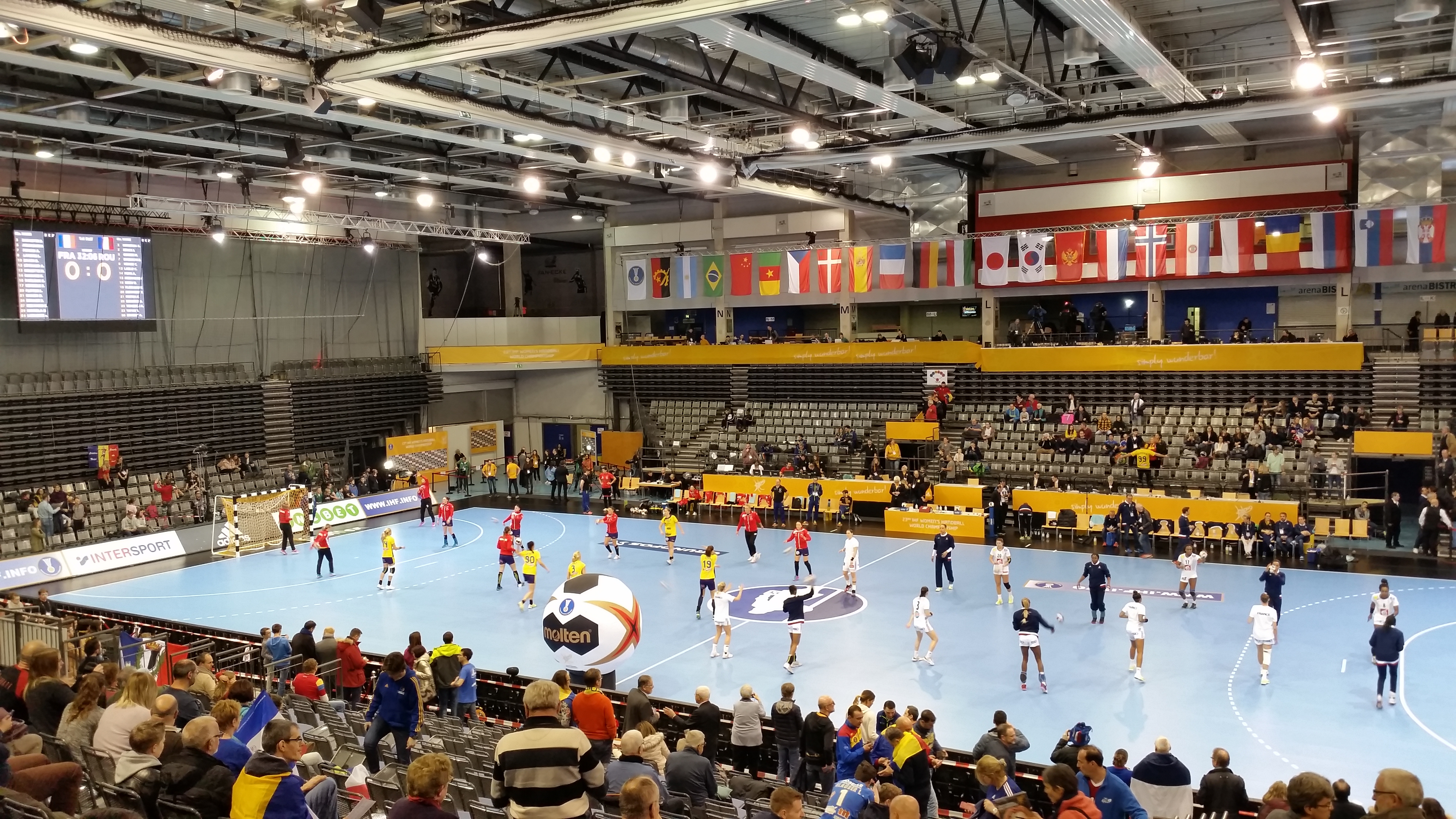 Trier Arena on December 8th, 2017, minutes before the game opposing France and Romania at the IHF World Women's Handball Championship.